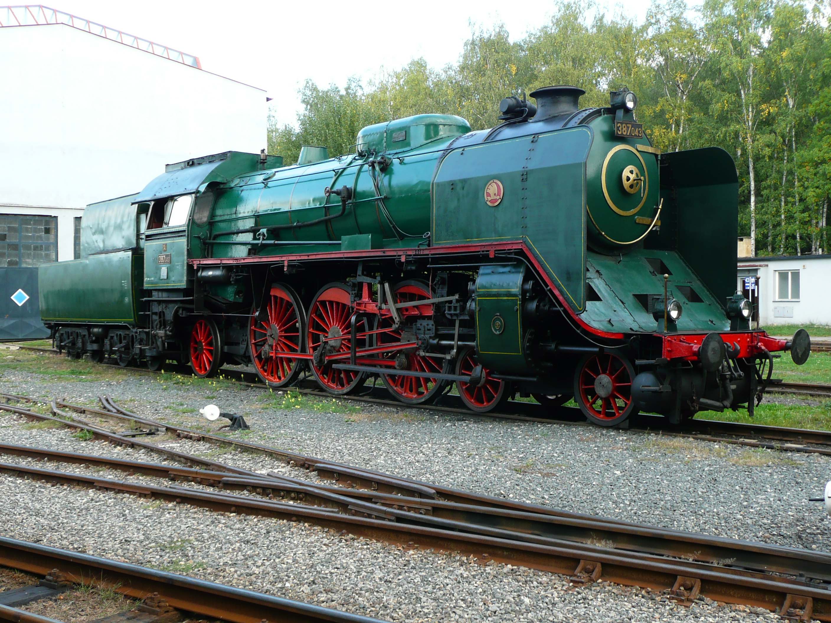 czech steam locomotive 387.043 in railway museum, Lužná u Rakovníka